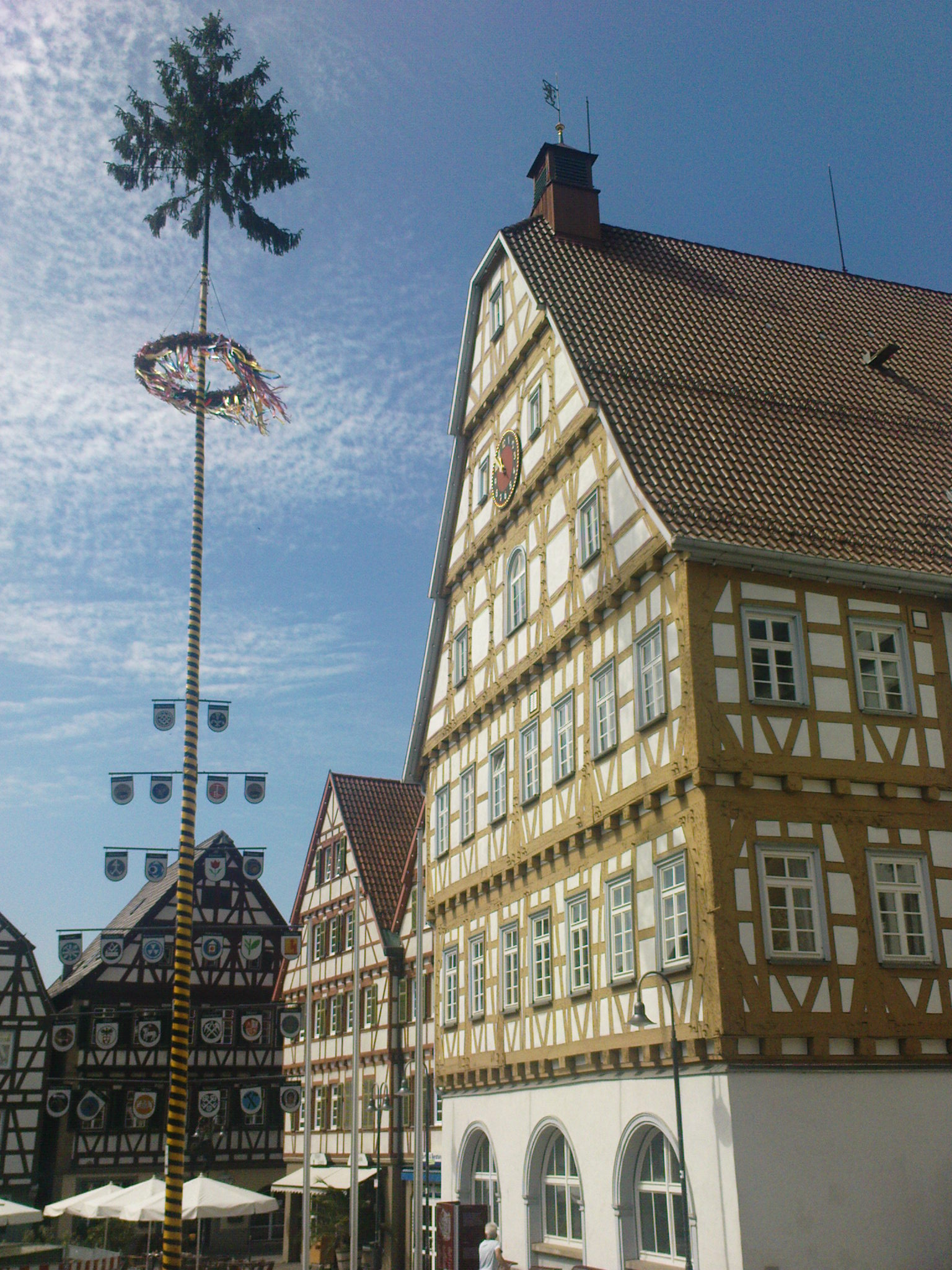 The Town Hall (Rathaus) in Leonberg